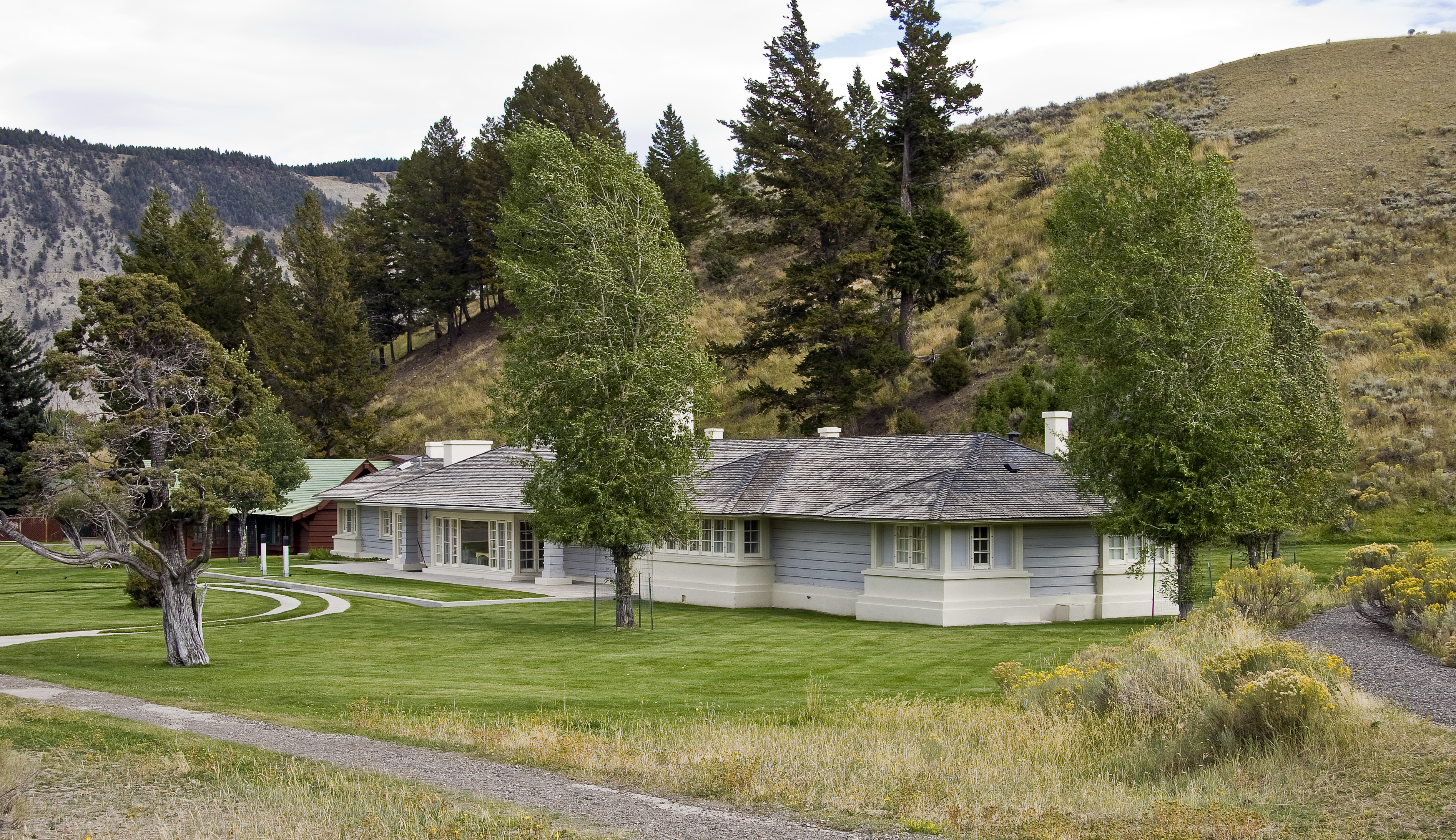 The Executive House, also known as the Child Residence at Mammoth Hot Springs, Yellowstone National Park, Wyoming, USA